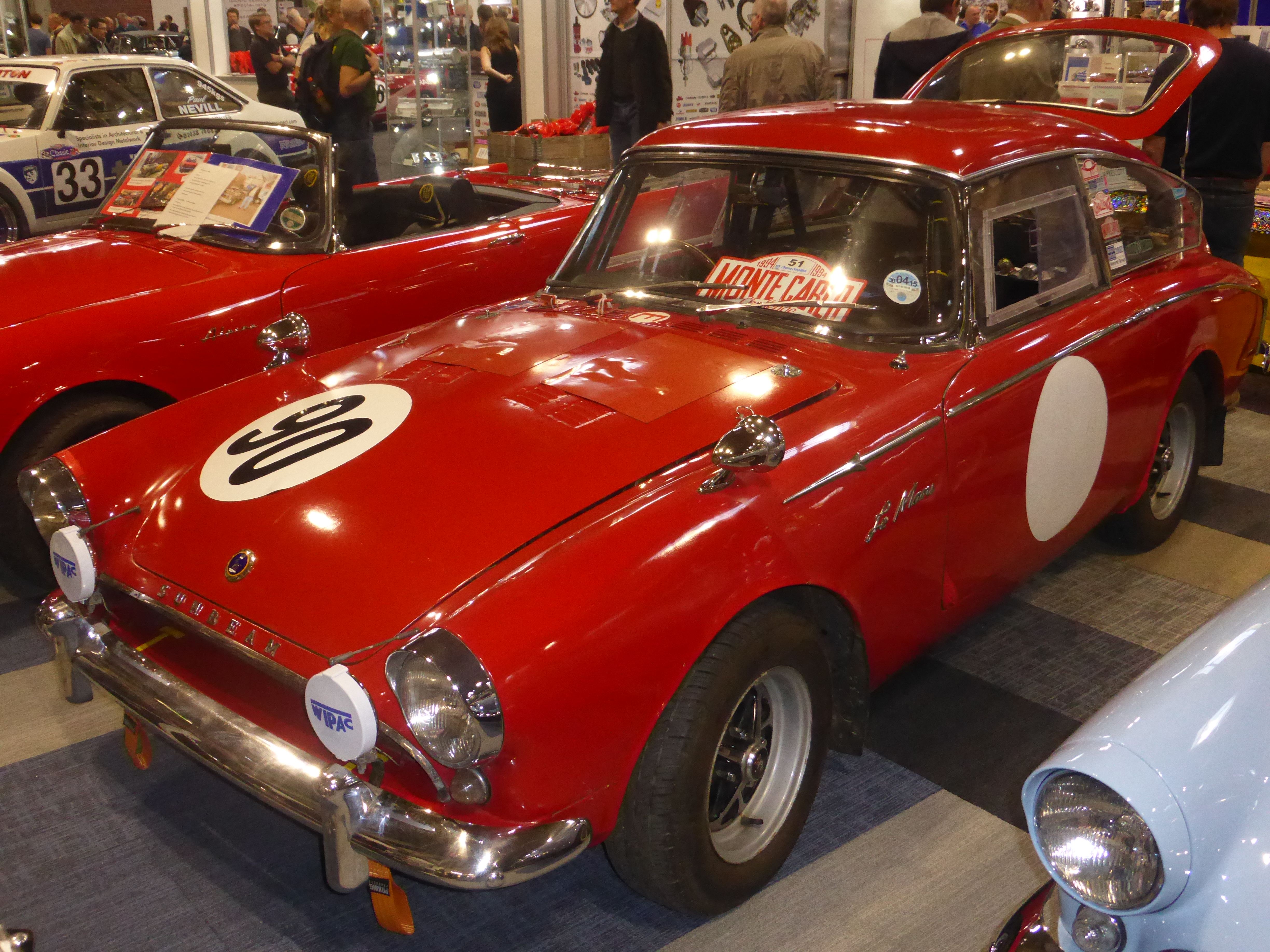 NEC Classic Car Show, Birmingham 10 November 2017